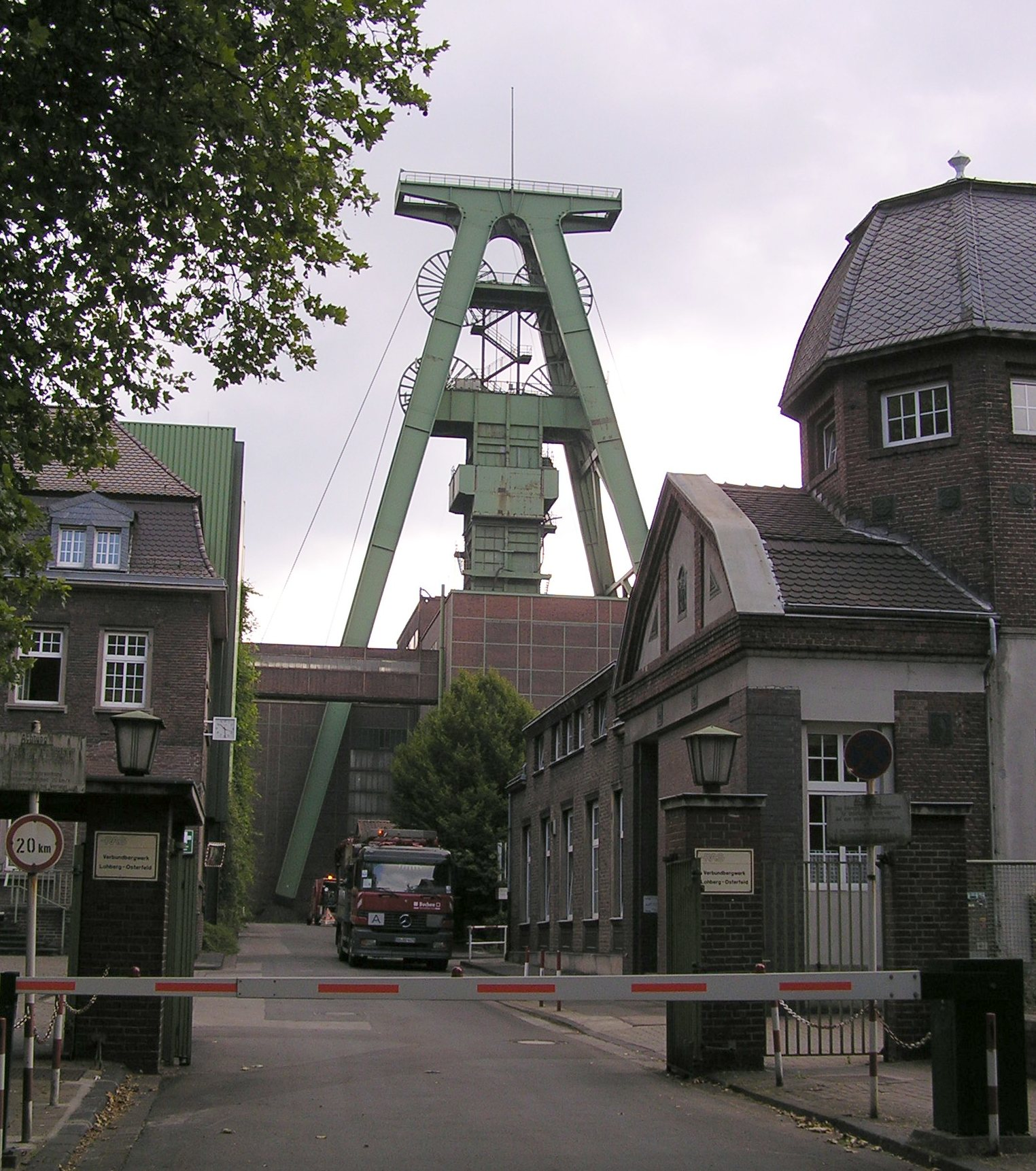 pit 2 of the coal mine "Lohberg", Dinslaken